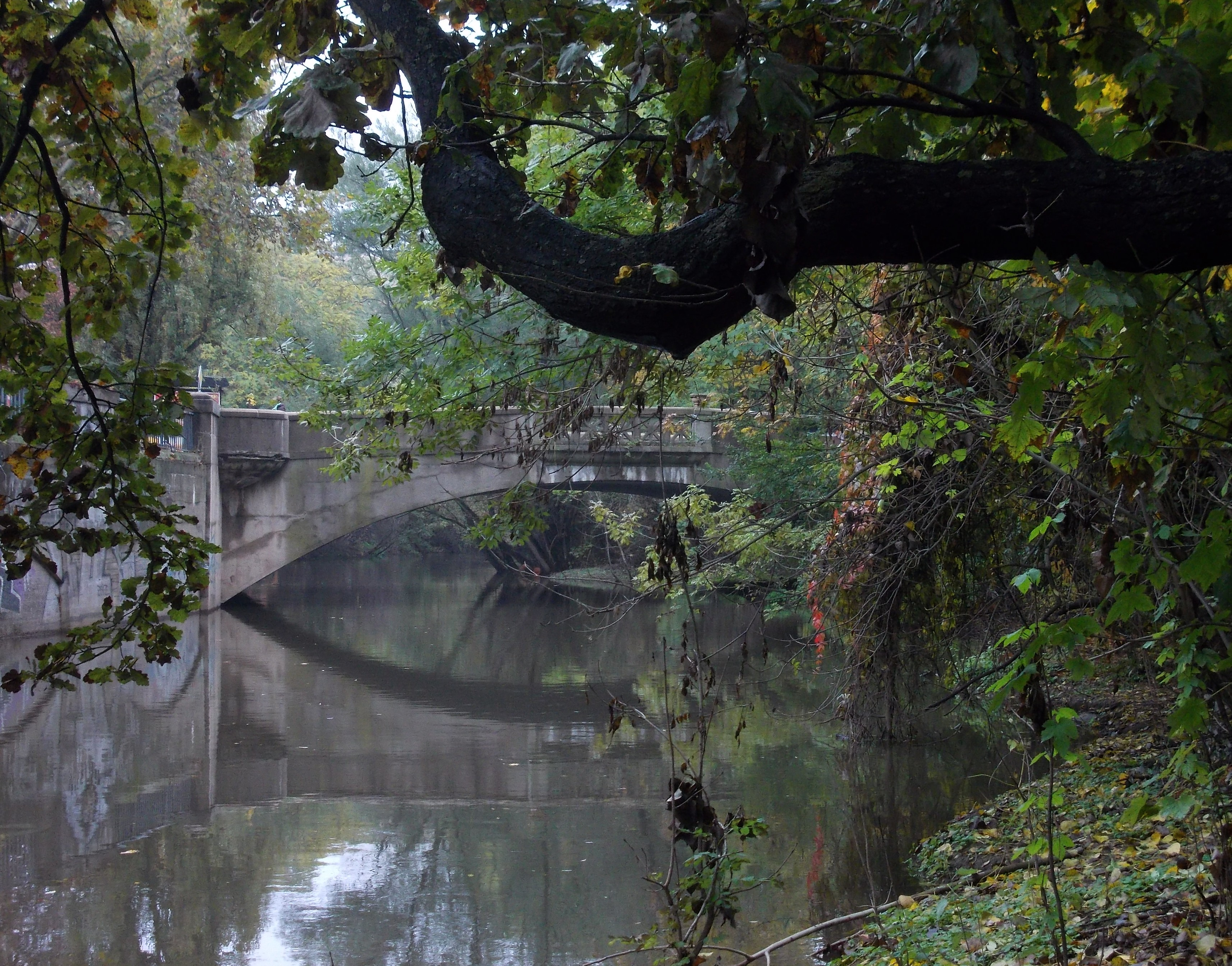 Mühlgraben, a branch of the Saale, near Pfälzer Brücke in Halle/Saale (Saxony-Anhalt)